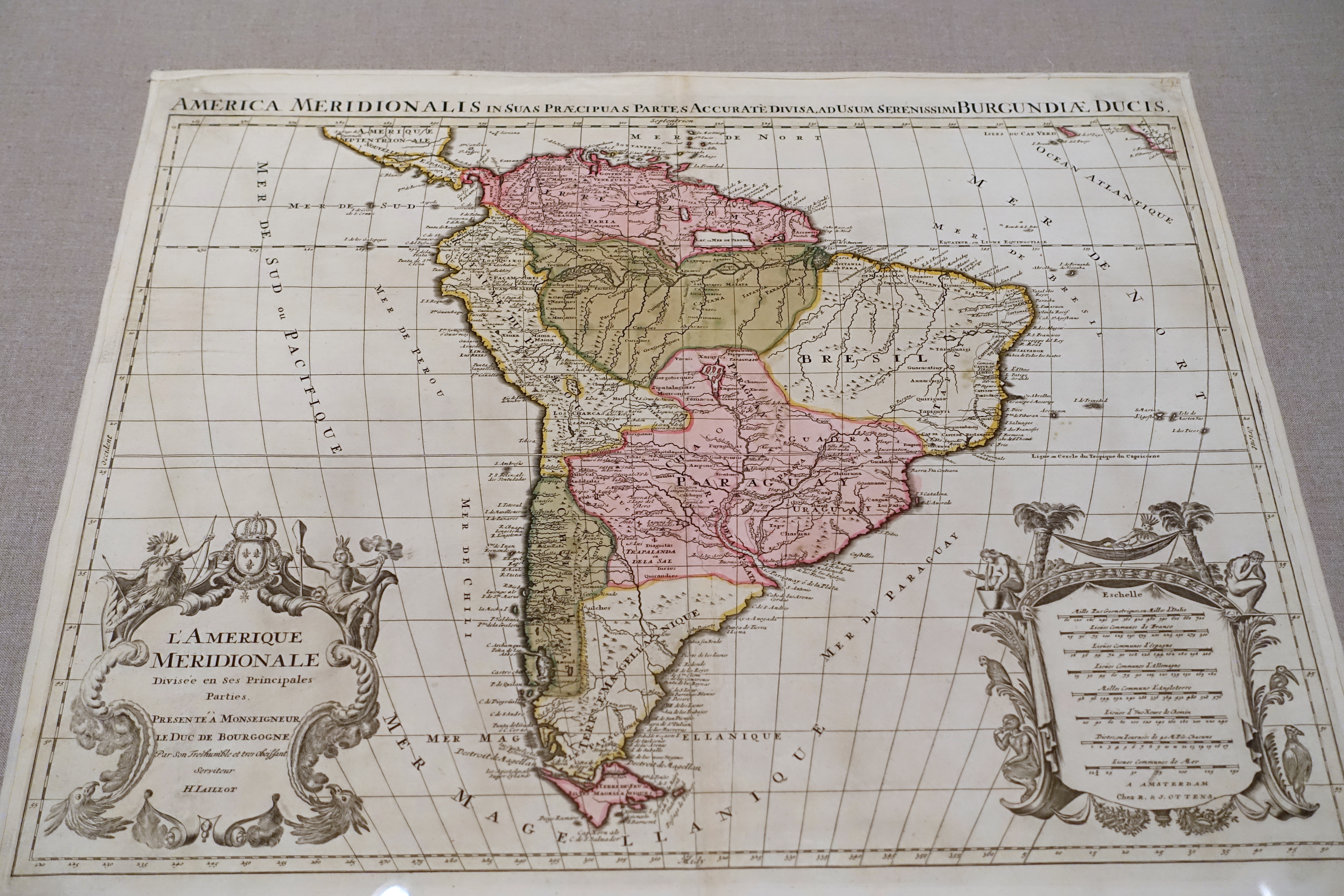 Exhibit in the Blanton Museum of Art - Austin, Texas, USA. This work is old enough so that it is in the public domain.